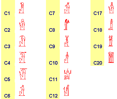 Description: Egyptian hieroglyphs of the Gardiner's list Source: own work Date: October 2005 Author: --Immanuel Giel 09:42, 26 October 2005 (UTC) Other versions: none